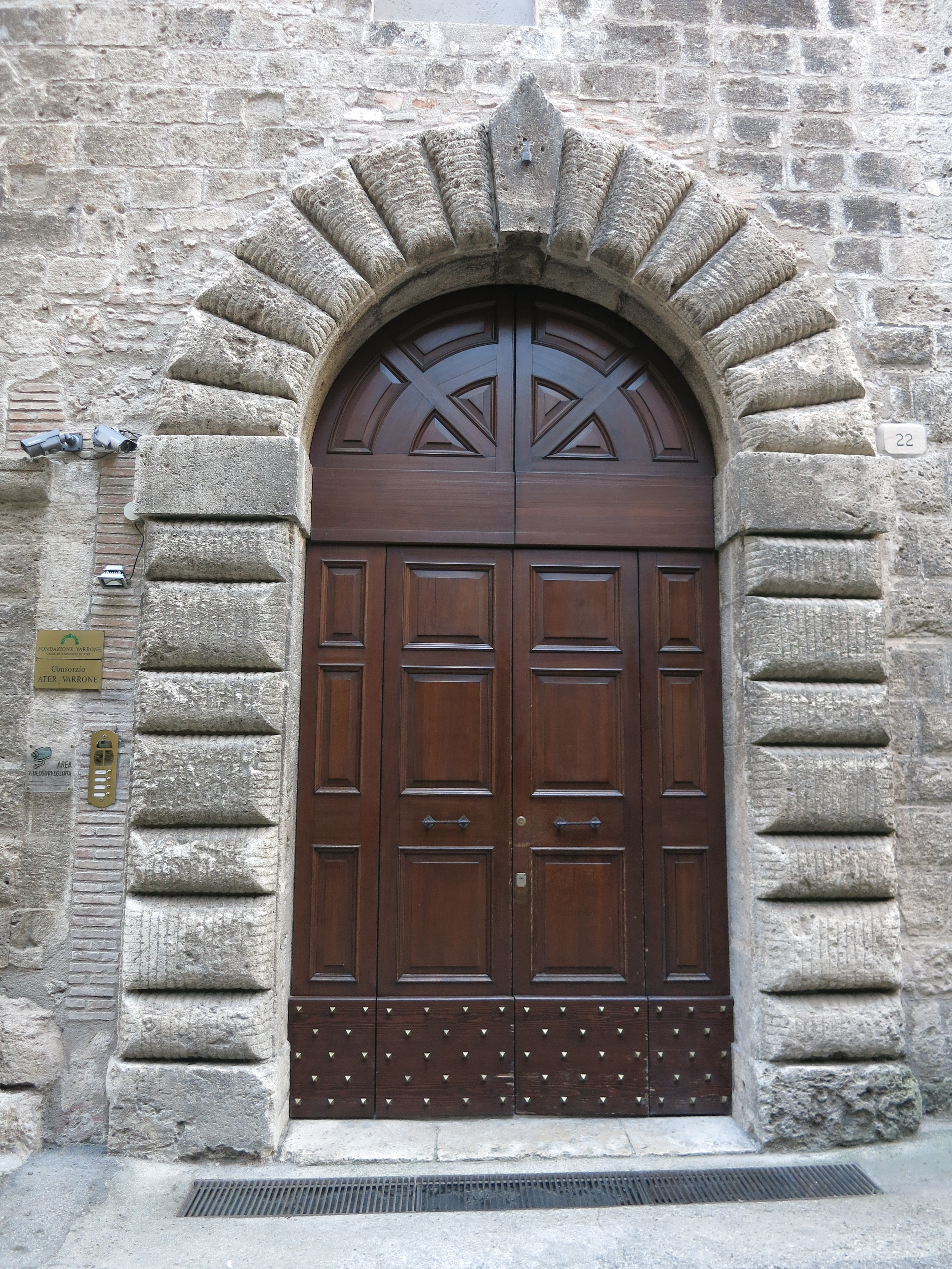 Potenziani Fabri Palace - Rieti, Lazio, Italy